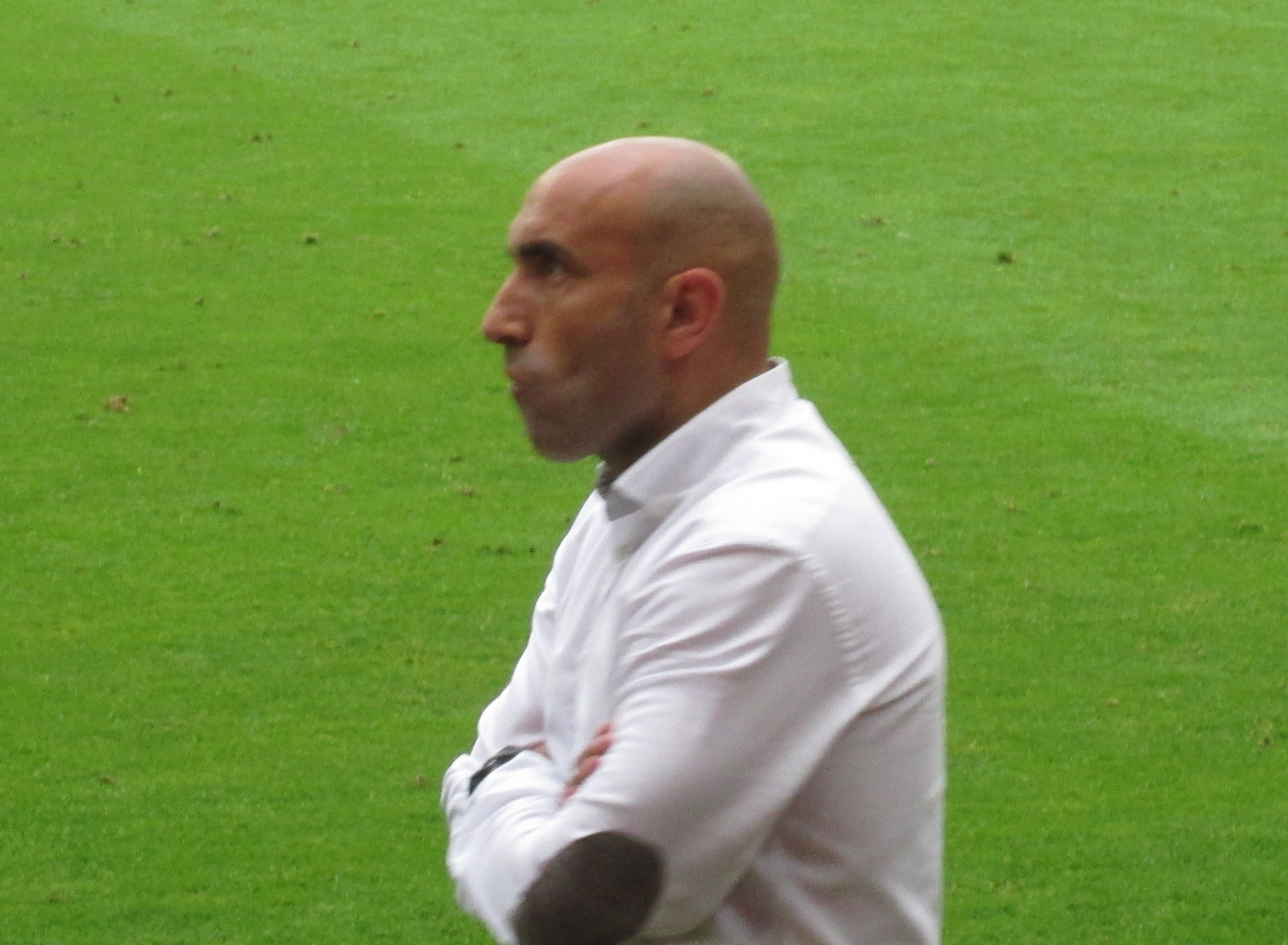 Abelardo with Sporting Gijón